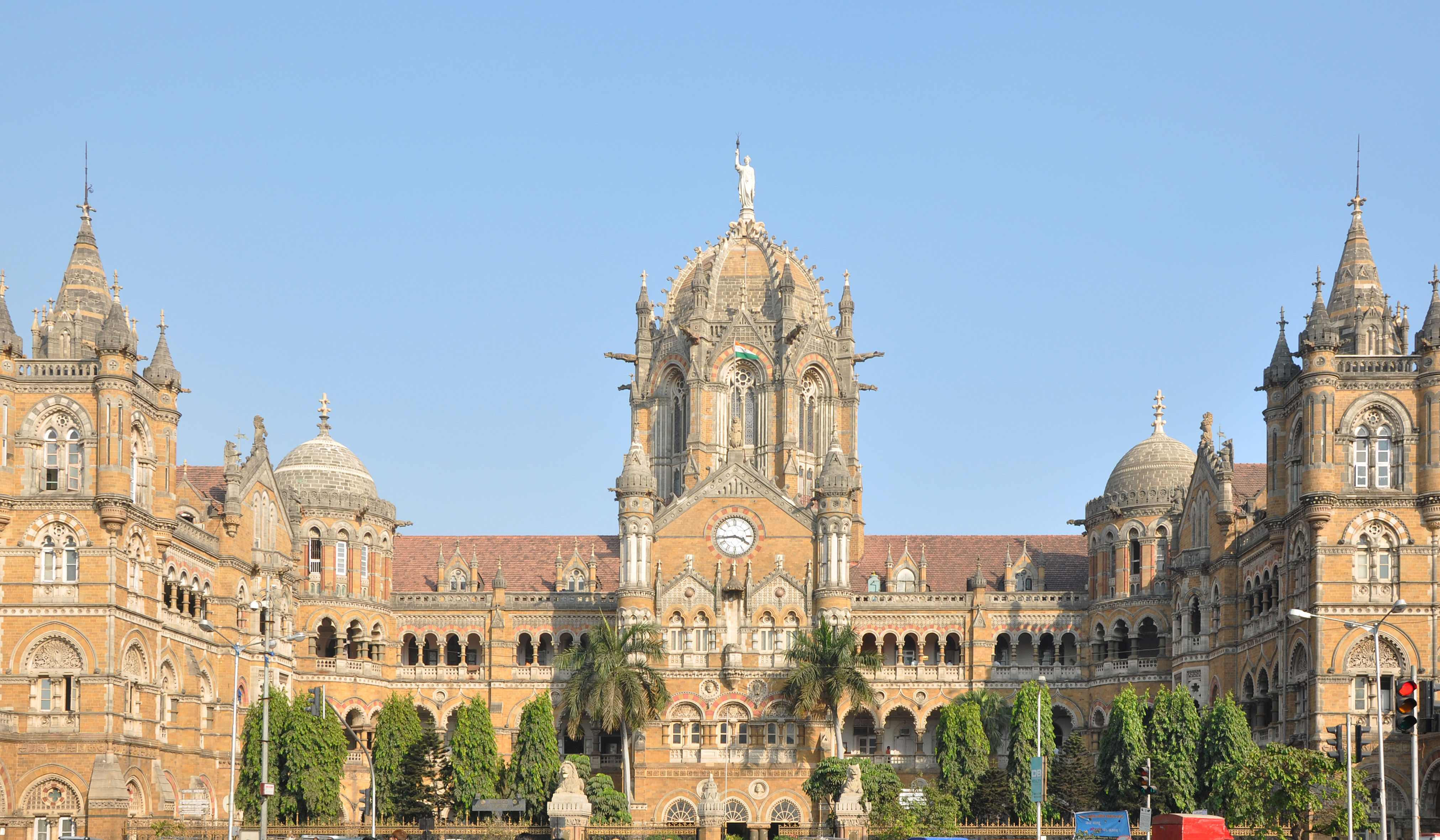 Chhatrapati Shivaji Terminus formerly Victoria Terminus in Mumbai, India.